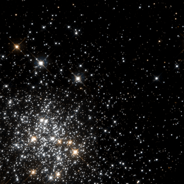 Color rendering is done by by Aladin-software (2000A&AS..143...33B.)